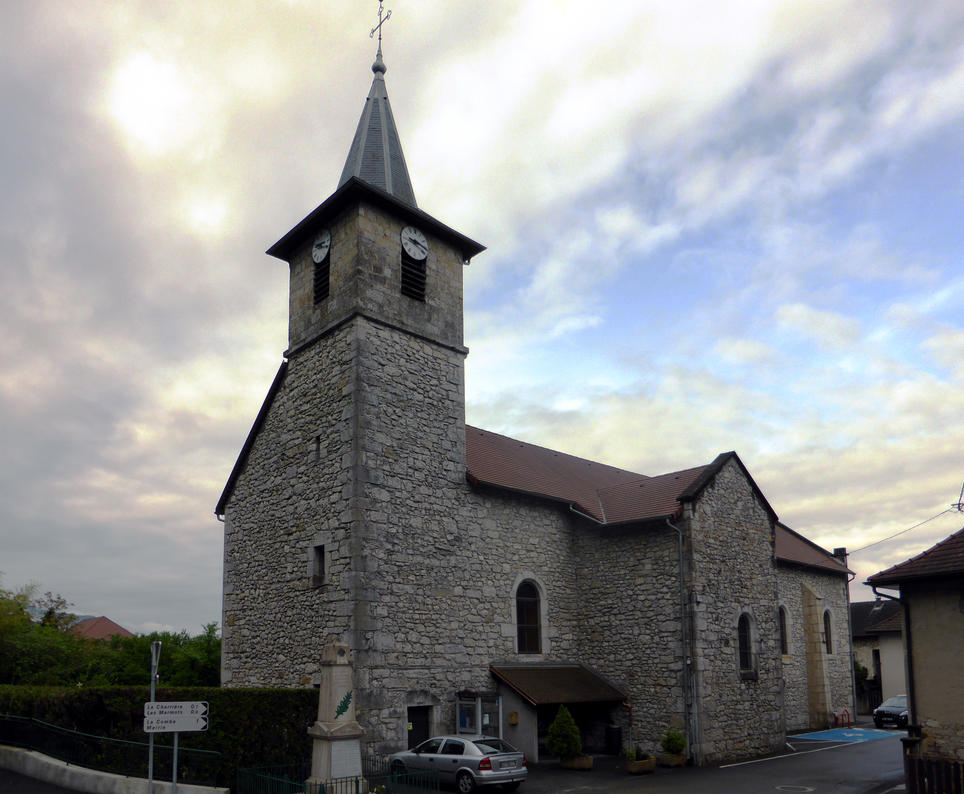 Church of La Balme, Savoie, Rhône-Alpes, France.